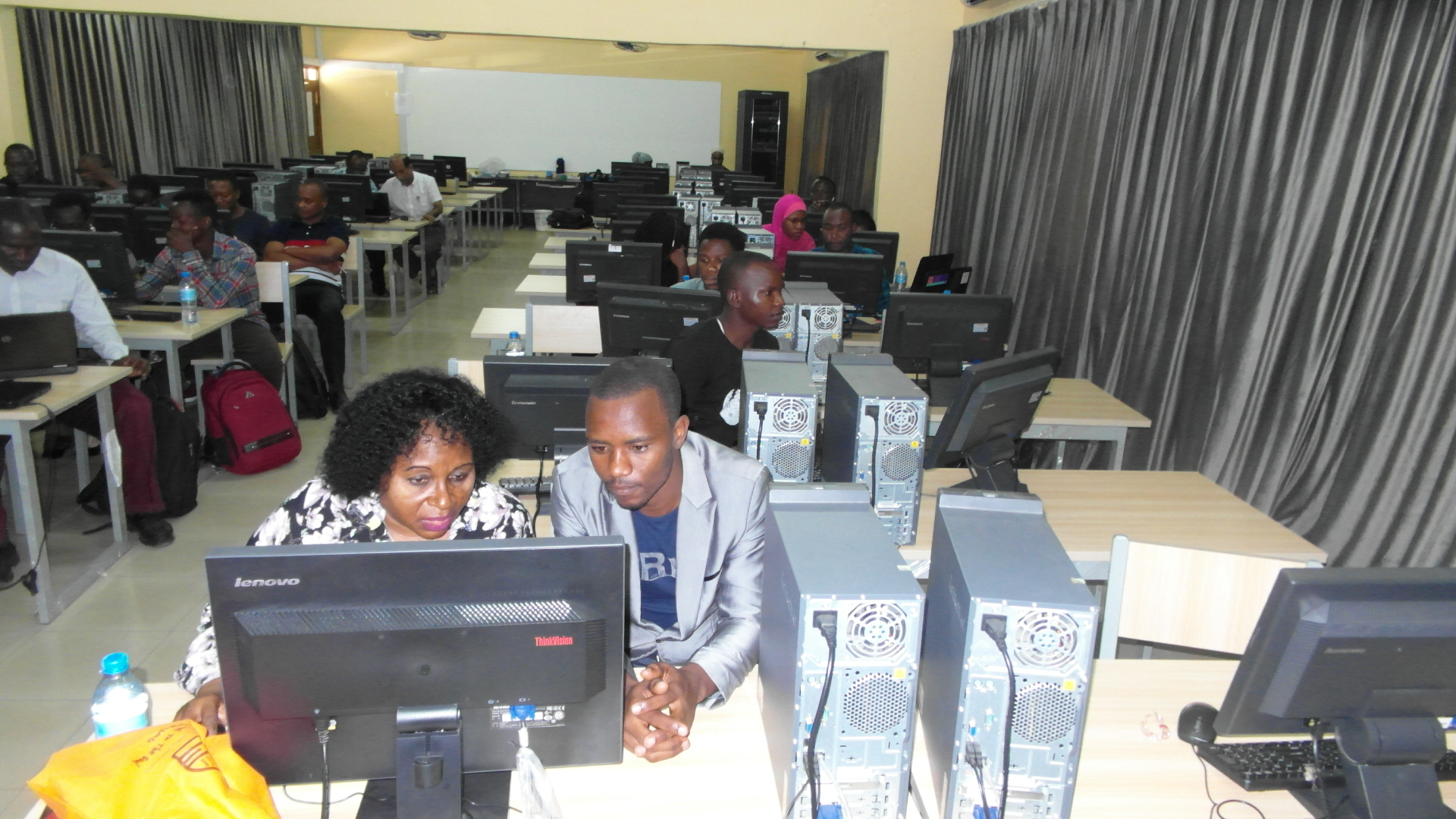 Prof. Verediana Masanja learning about Wikipedia during Astronomy workshop in Tanzania